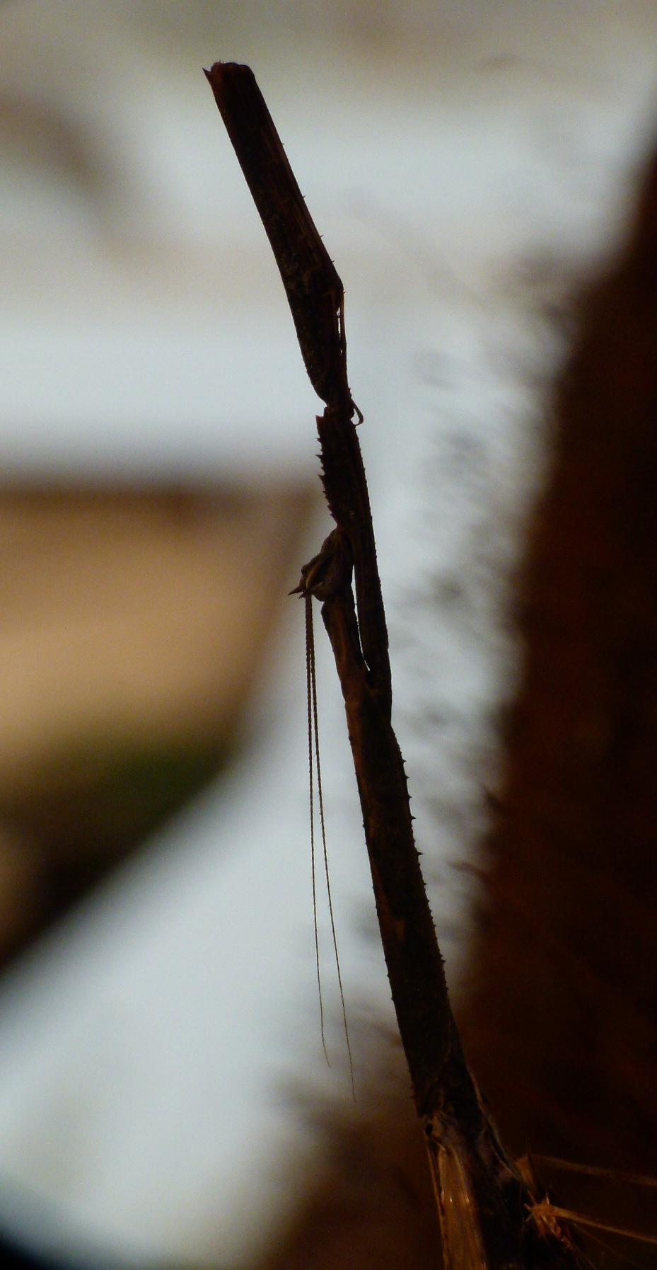 Aethalochroa sp. (Mantodea) in outline. Castle Rock, India.